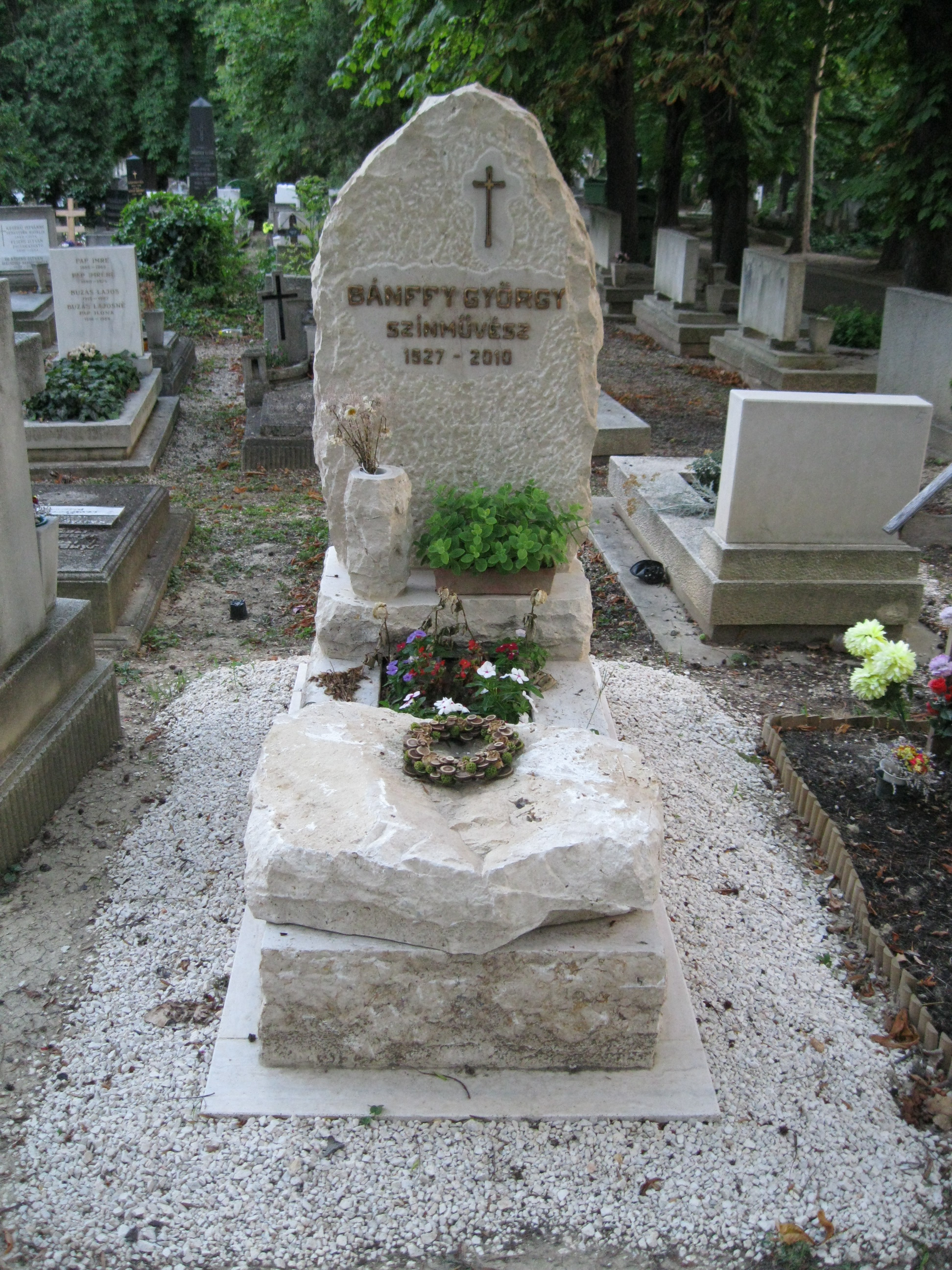 Tomb of the actor György Bánffy in Farkasréti Cemetery [25-9-11]